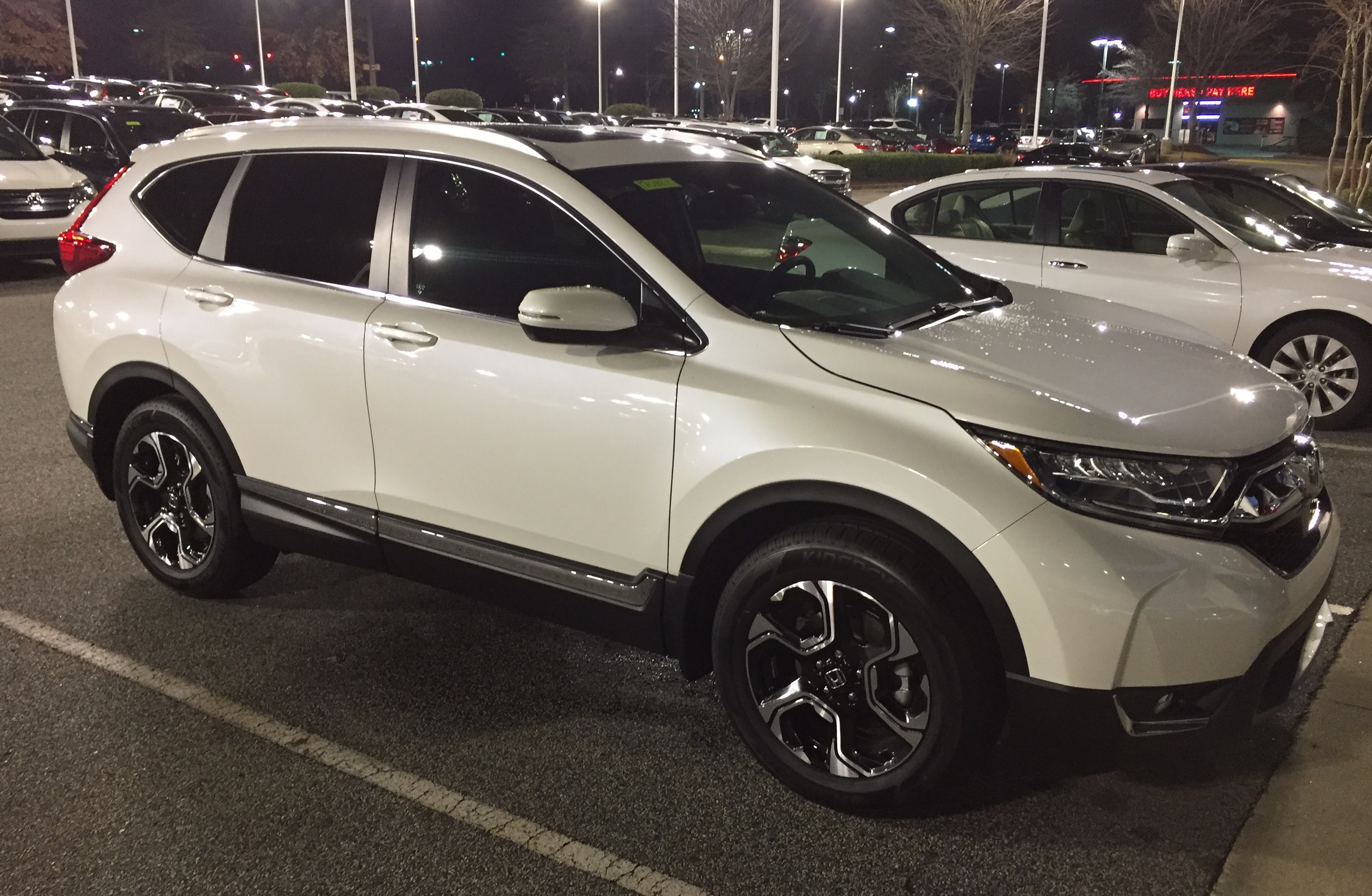 2017 Honda CR-V Touring in White Diamond Pearl